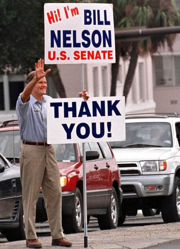 Bill Nelson with thank you sign after his election to United States Senate in 2000.